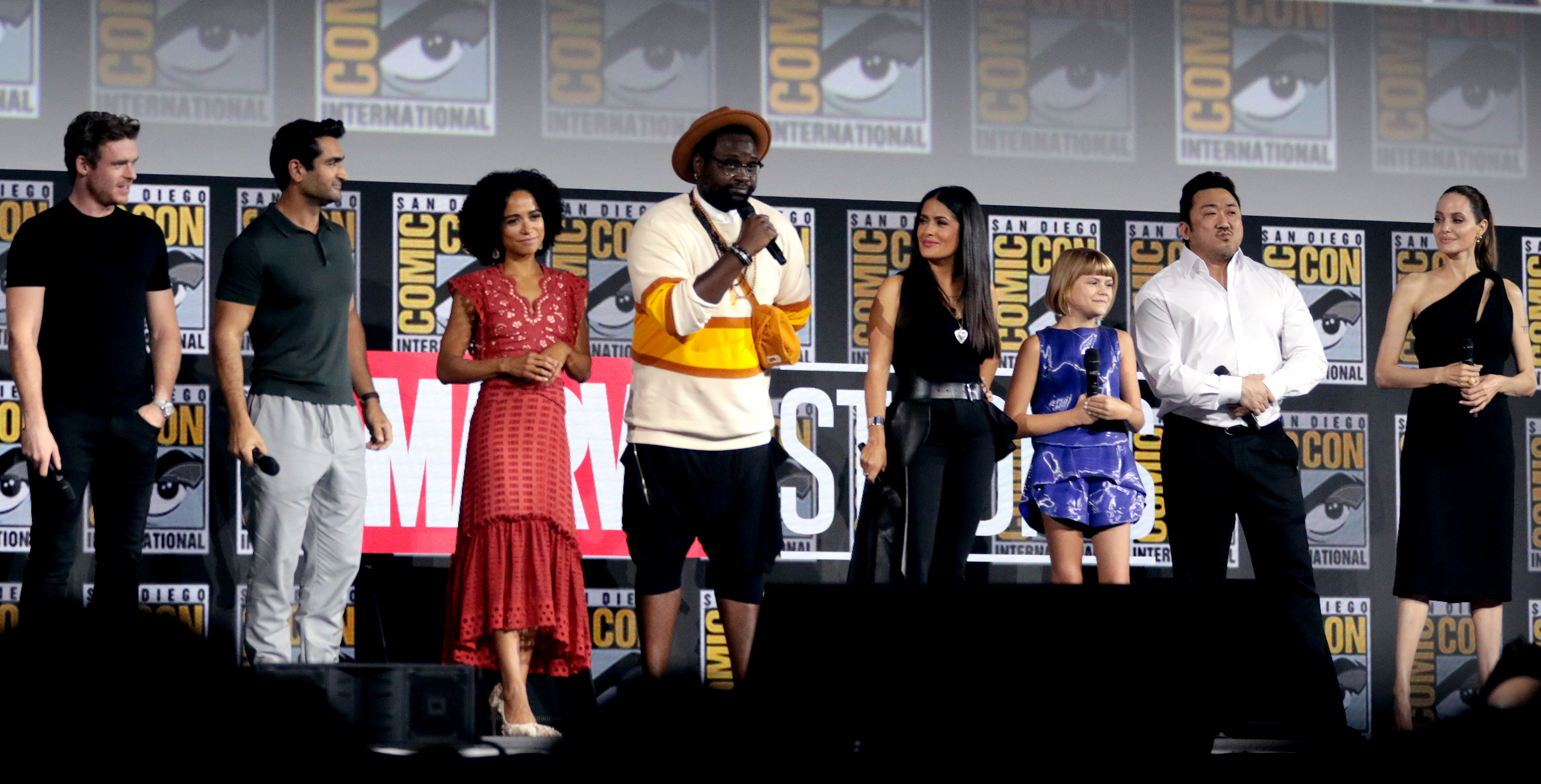 Richard Madden, Kumail Nanjiani, Lauren Ridloff, Brian Tyree Henry, Salma Hayek, Lia McHugh, Don Lee and Angelina Jolie speaking at the 2019 San Diego Comic Con International, for "The Eternals", at the San Diego Convention Center in San Diego, California.